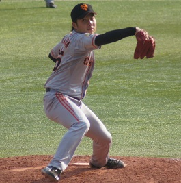 giants imamura 65